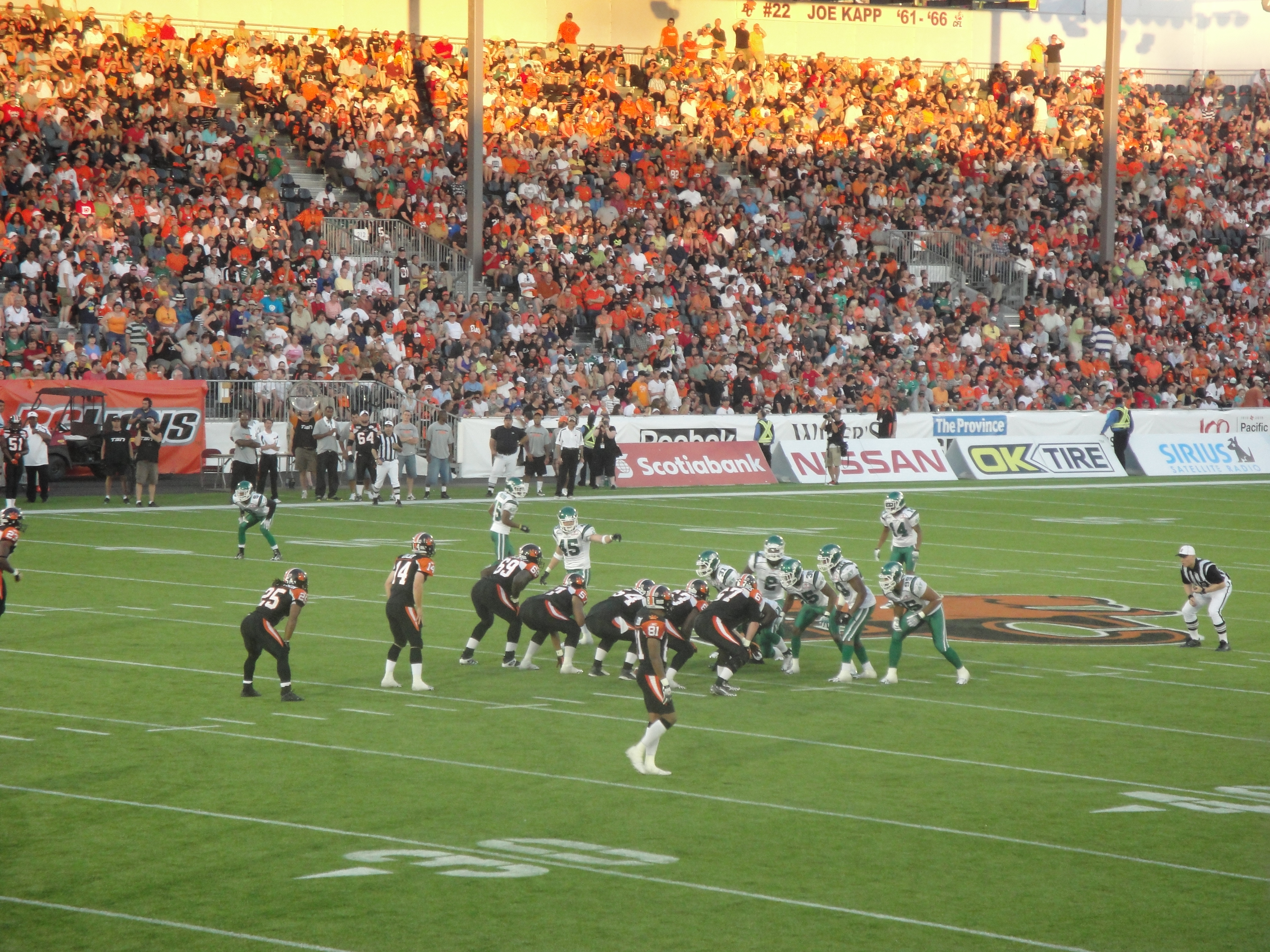 The BC Lions 2010 season opener at Empire Field.